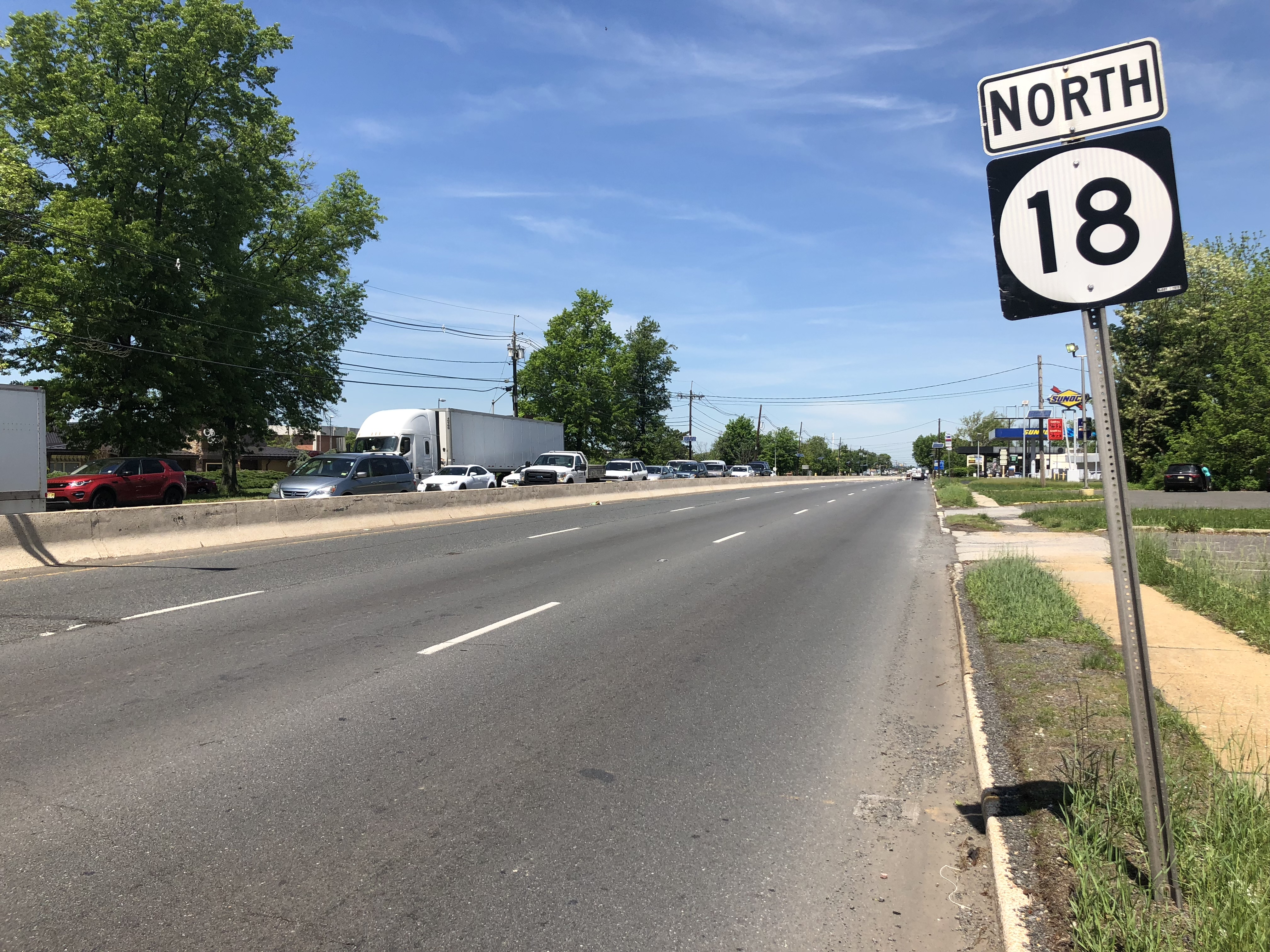 View north along New Jersey State Route 18 at Rues Lane in East Brunswick Township, Middlesex County, New Jersey